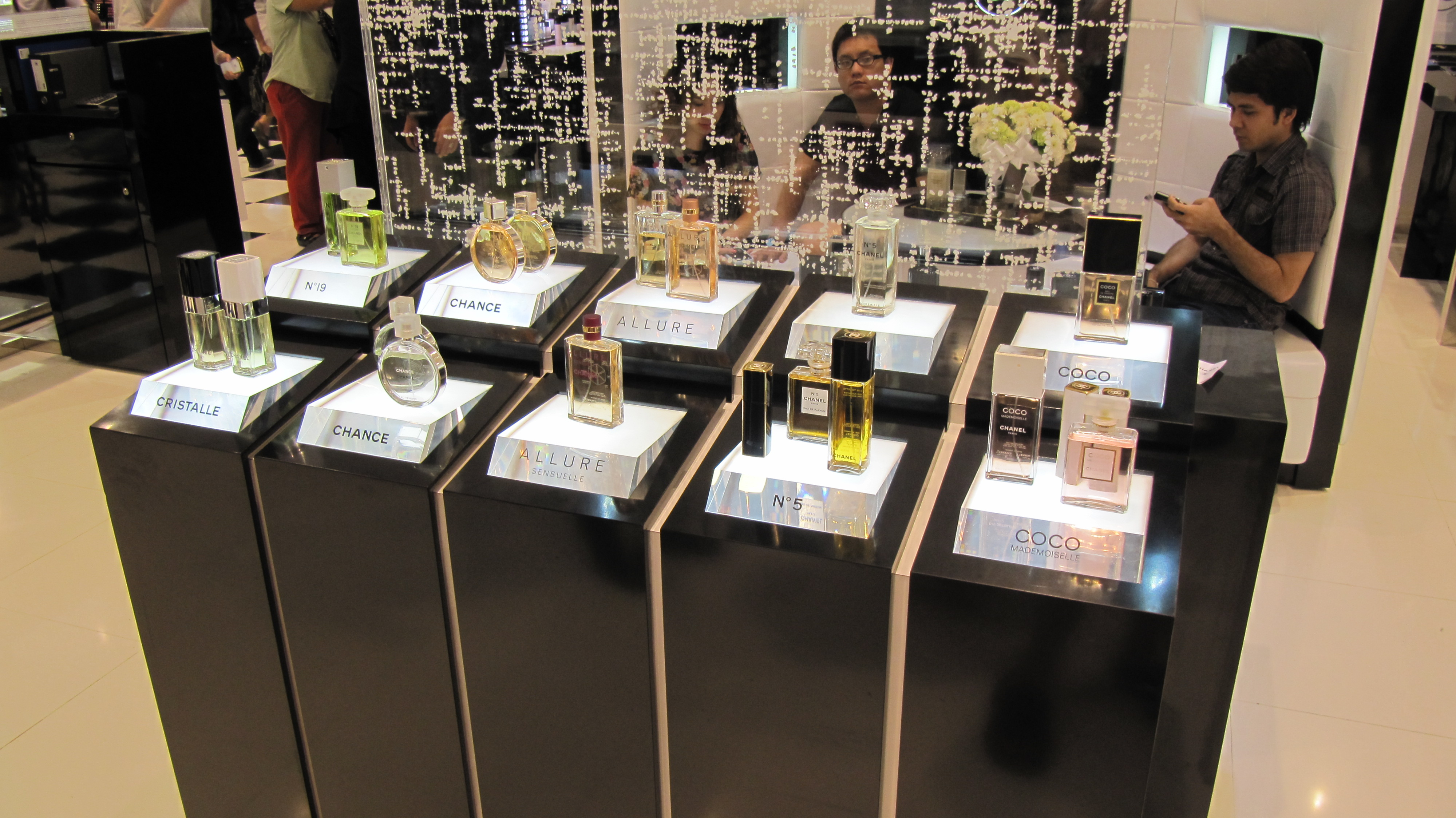 Chanel parfumes Central Ladprao